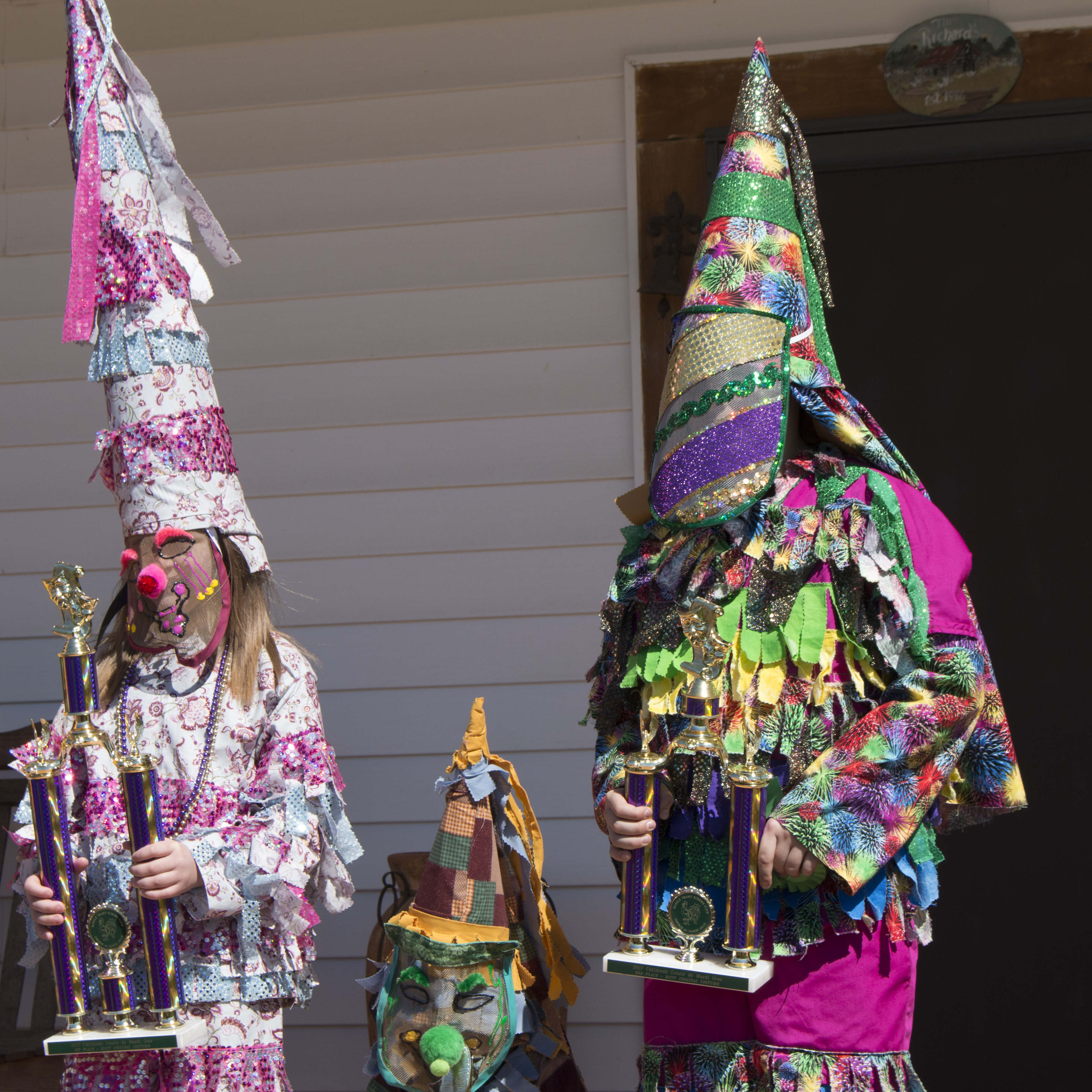 Winners of 2017 Children's Courir de Mardi Gras for best costume in Church Point, Louisiana